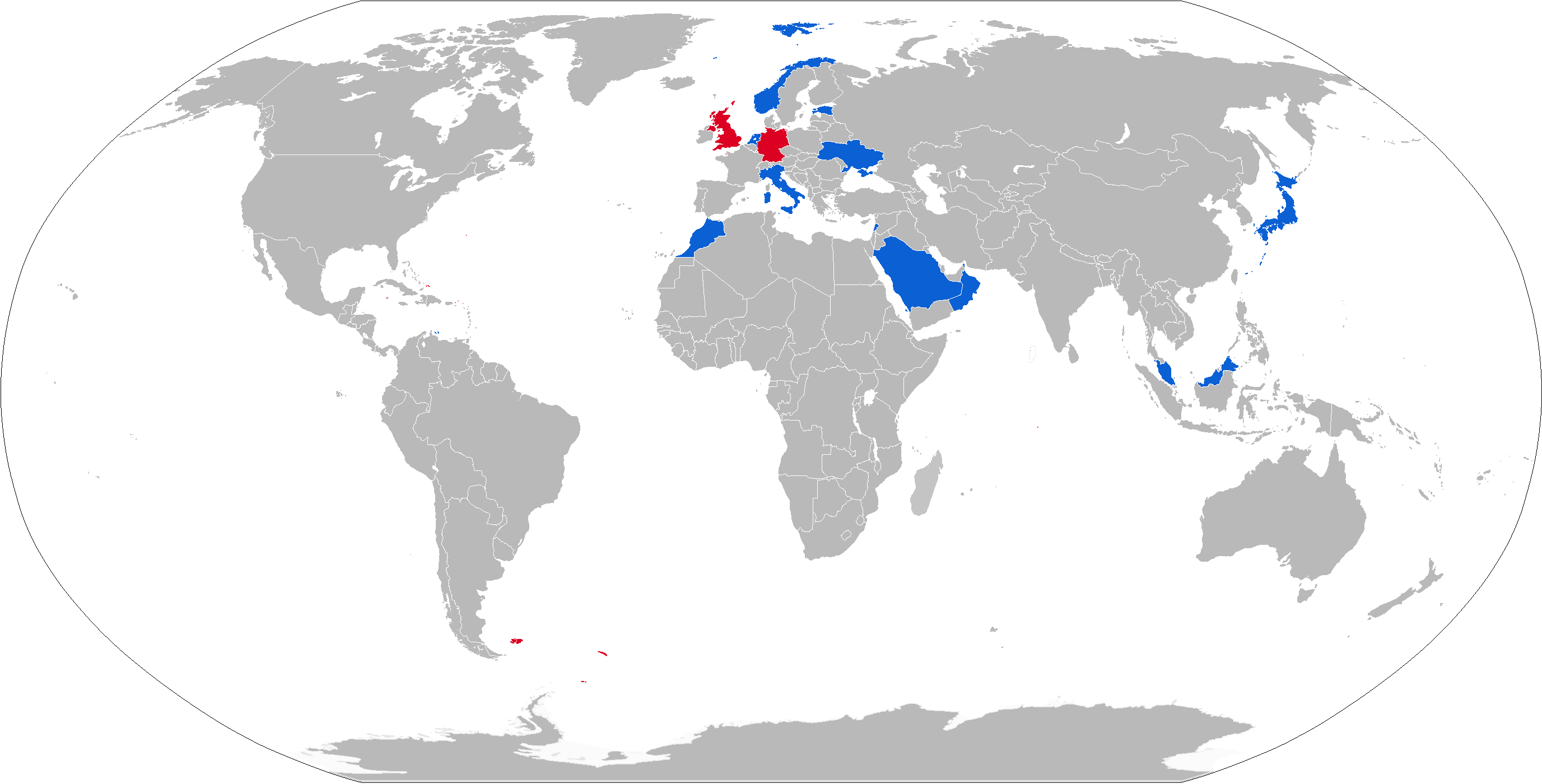 Users of the FH-70 howitzer 2010